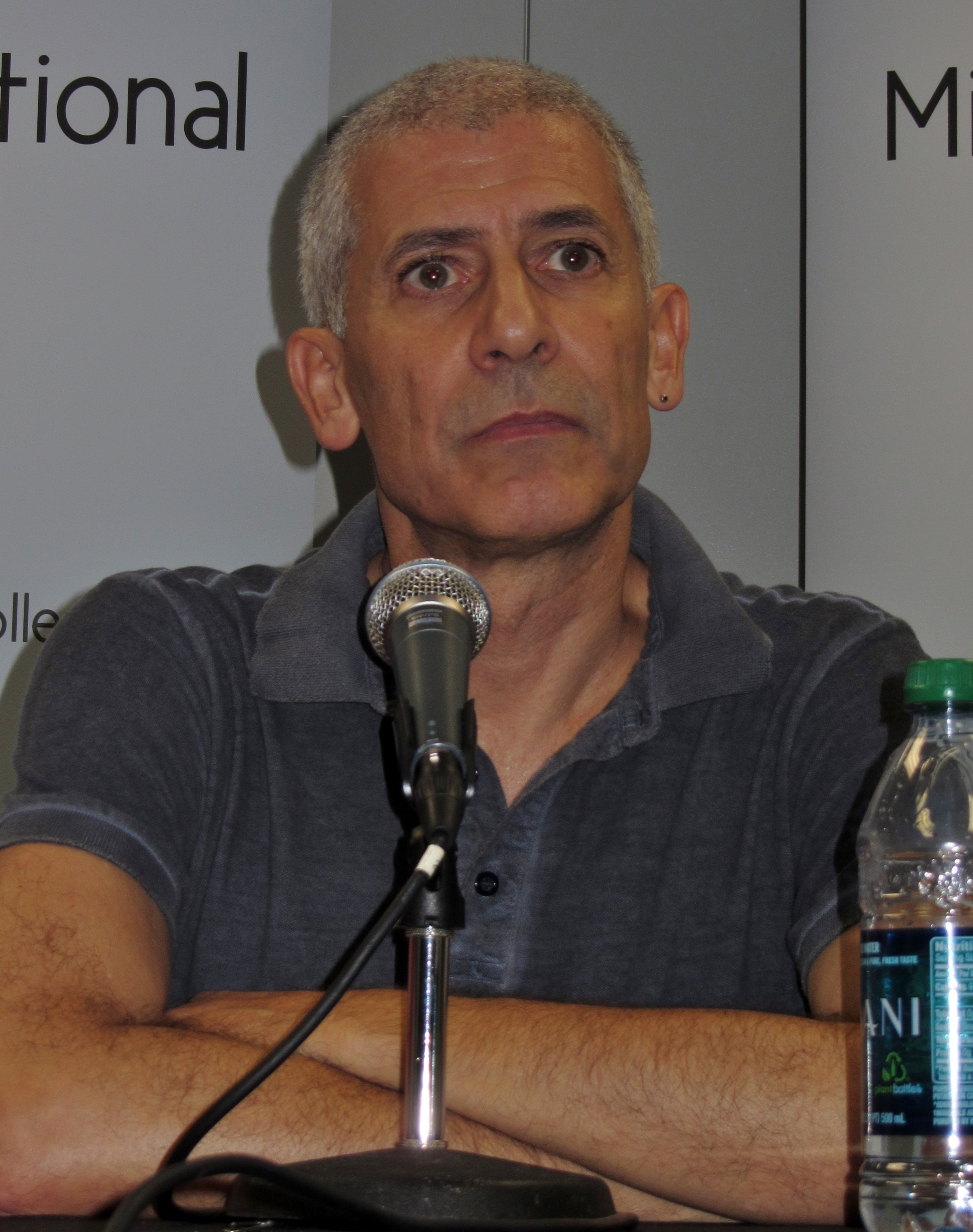 Spanish writer José Ovejero at the Miami Book Fair International, 2013